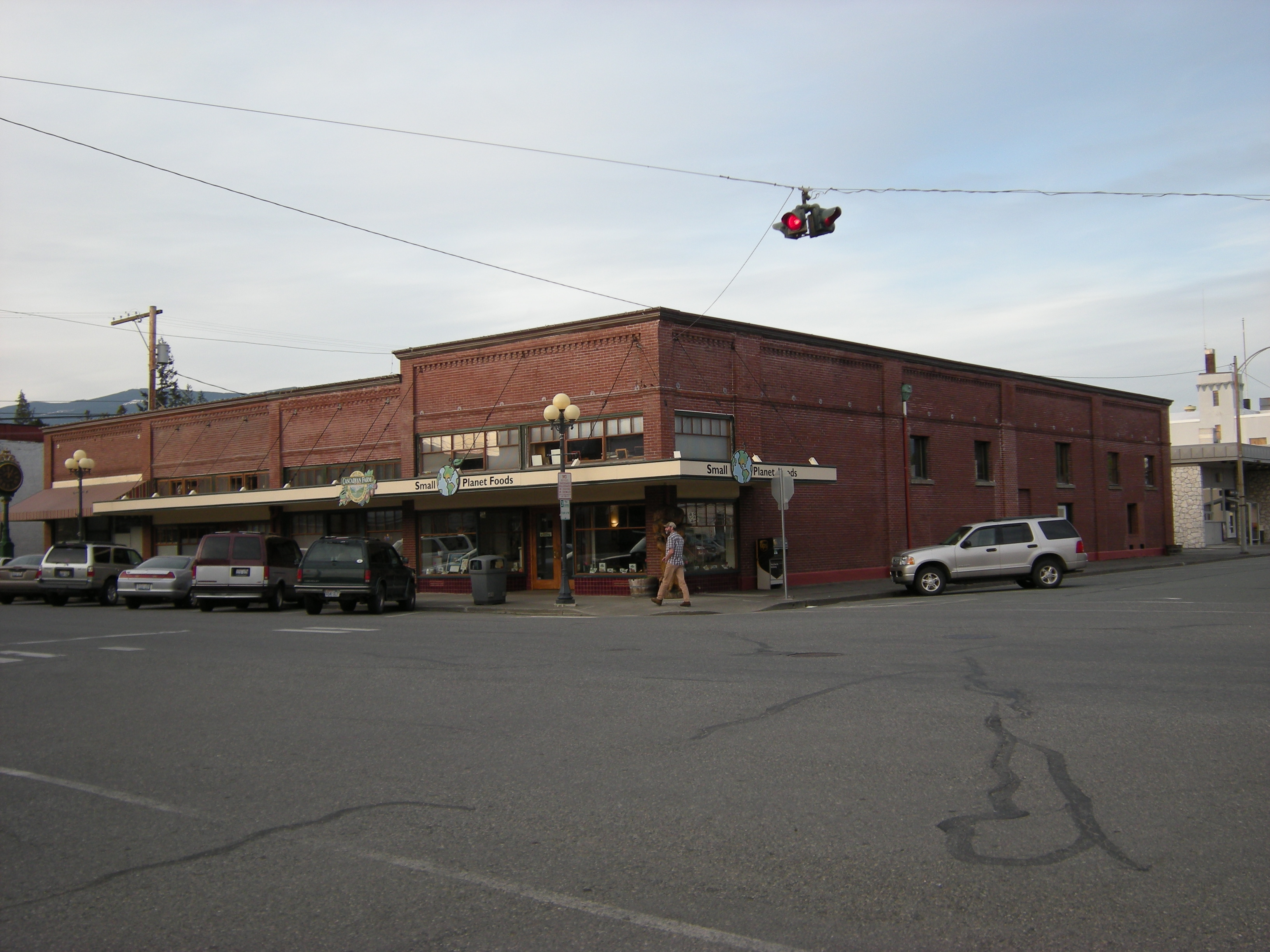 Small Planet Foods, Sedro-Woolley, Washington, USA.